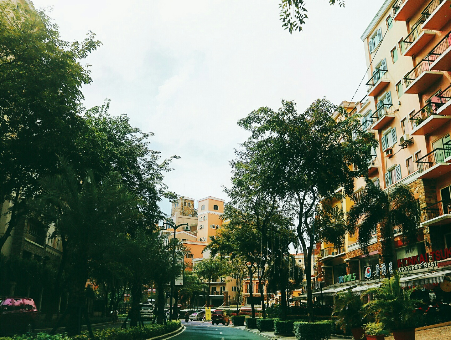 Upper Mckinley hills